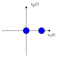 constelacion ASK